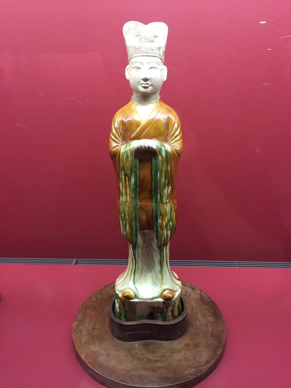 屬於自己拍攝的作品